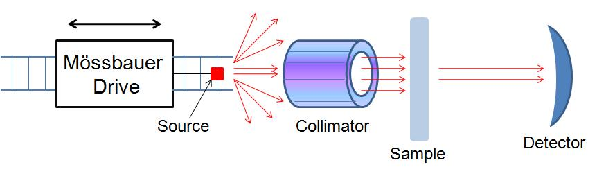 A schematic view of Mössbauer spectometer